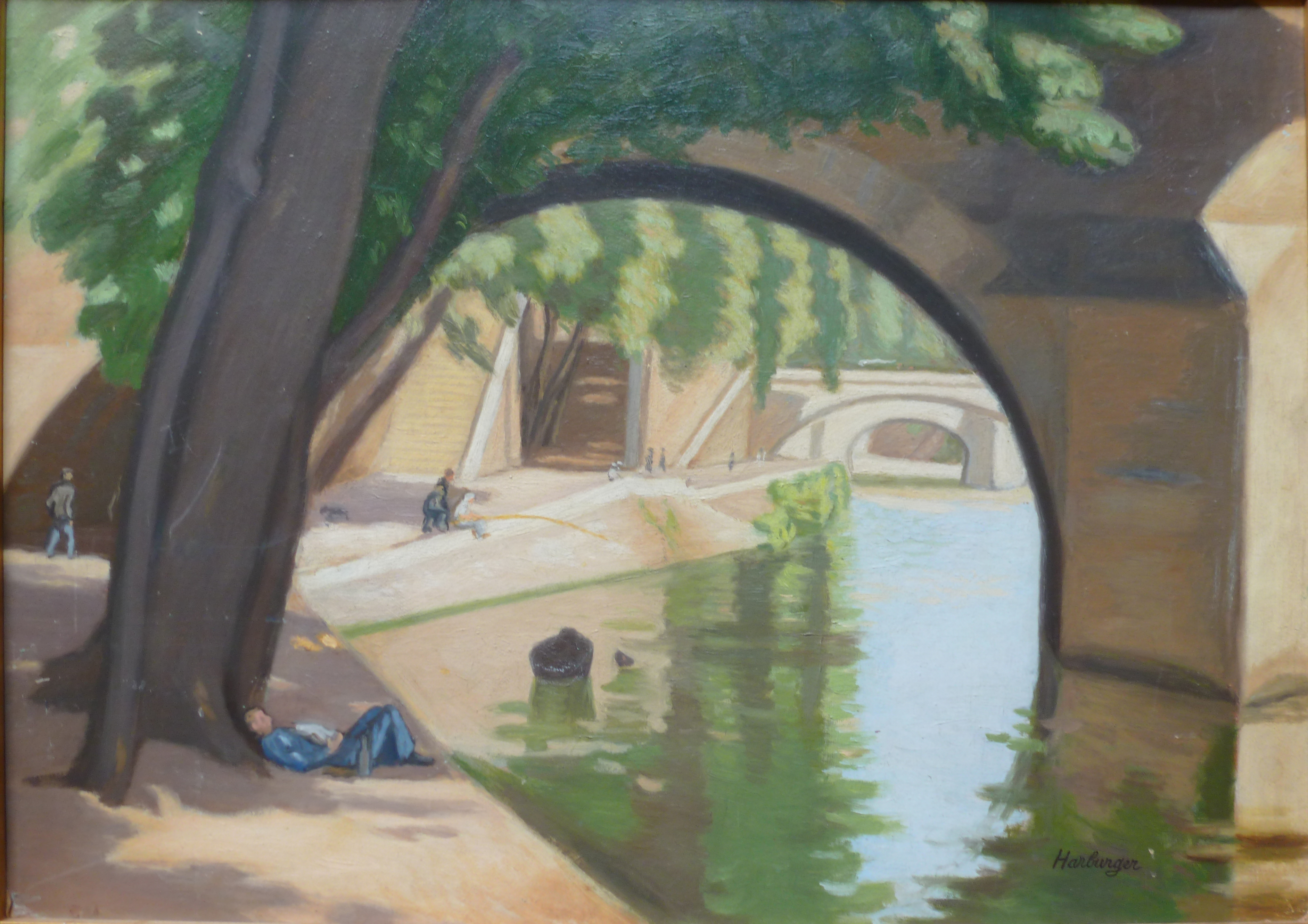 Oil on cardboard, 50 x 65 cm. Private collection